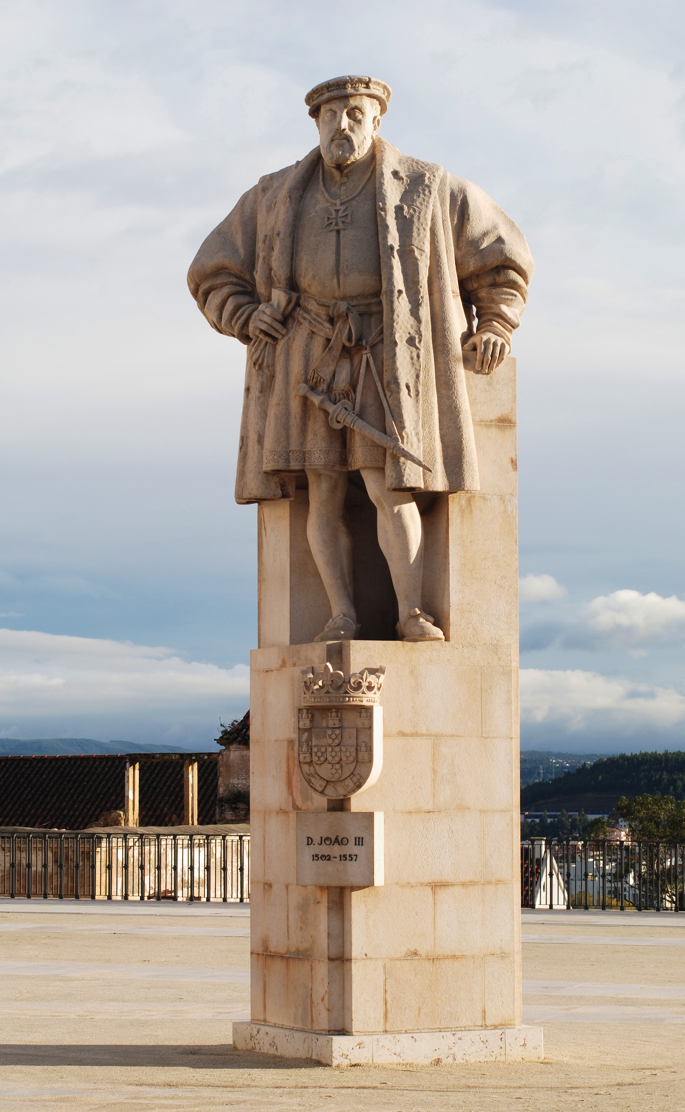 Statue of King John III of Portugal in the court of the University of Coimbra, Portugal